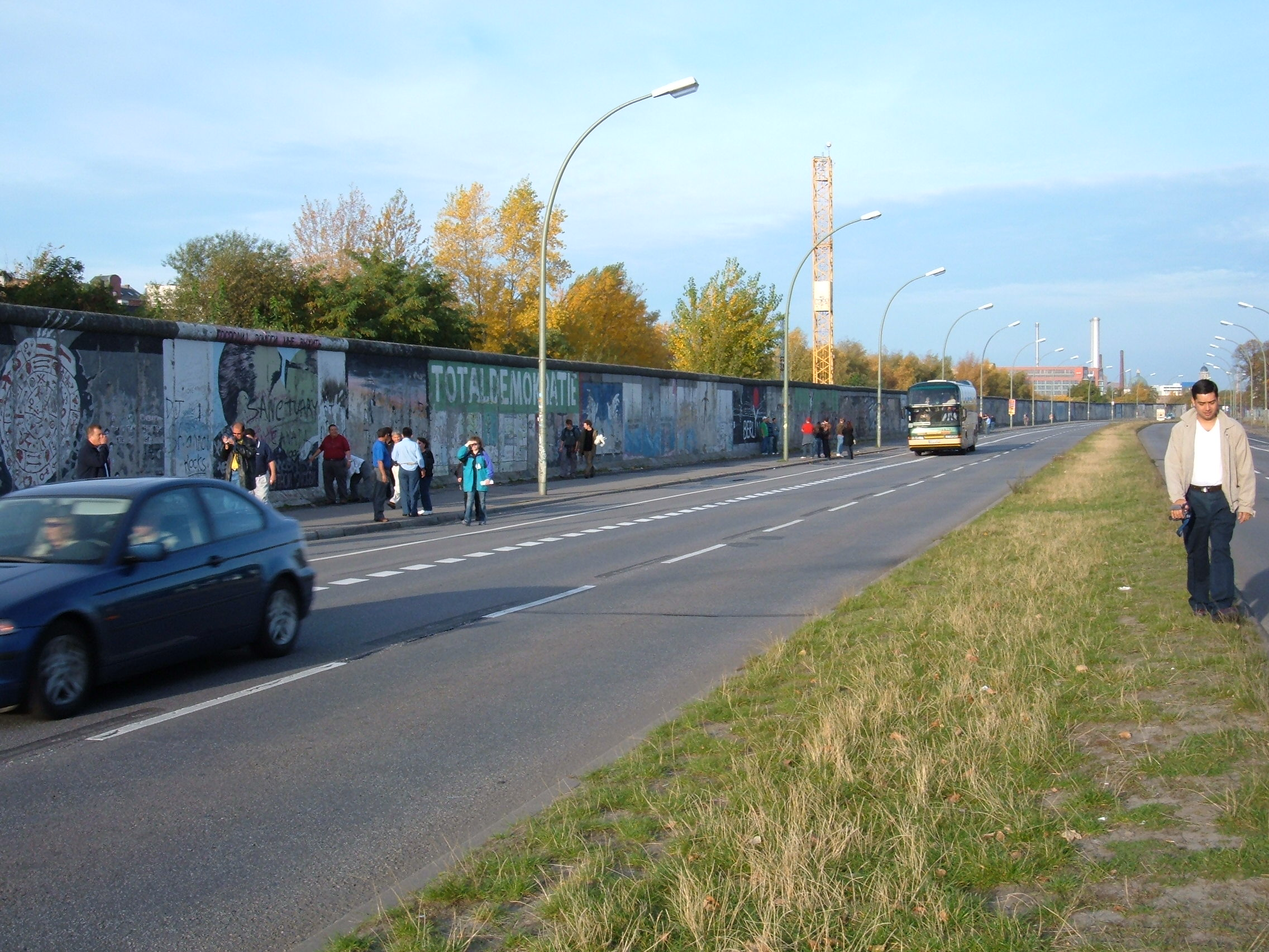 The East Side Gallery in Berlin, Germany.